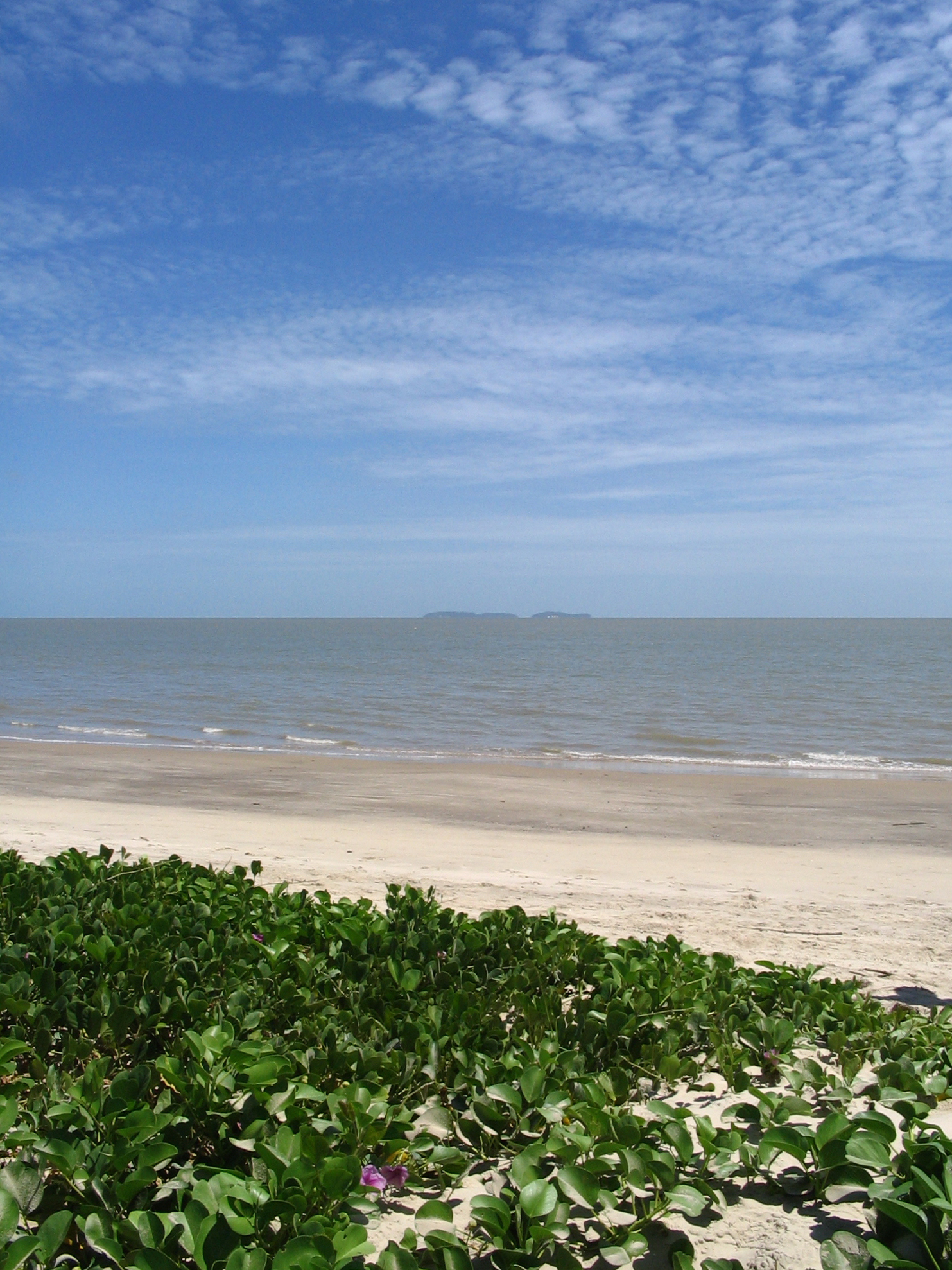 Kourou's beach with the Salvation Islands in the background.